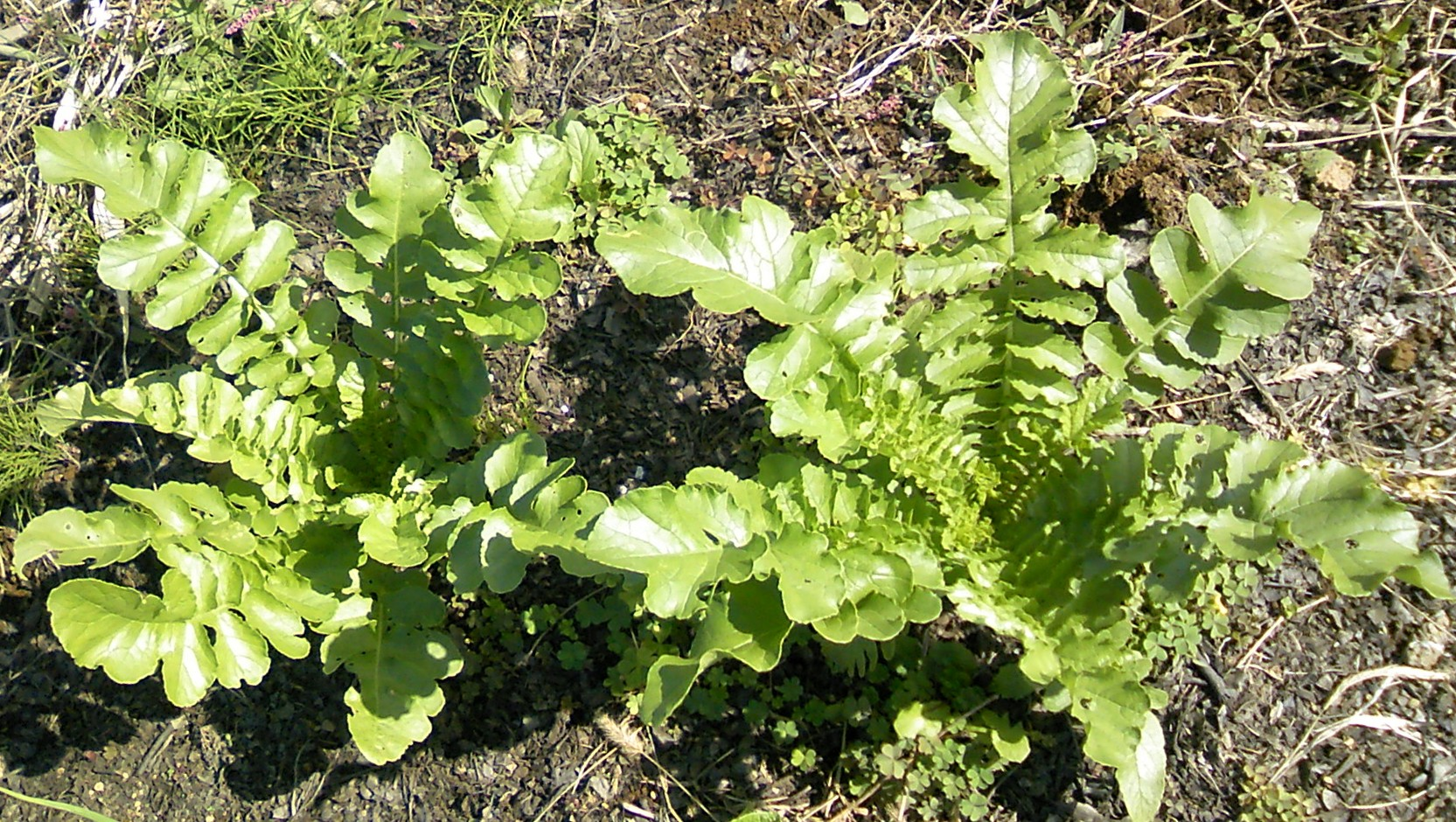 Leaves of Japanese Radish(Daikon)